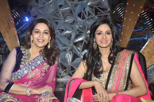 Madhuri Dixit and Sridevi on Jhalak Dikhhla Jaa 5 where Sridevi was present for promotion of her film English Vinglish.